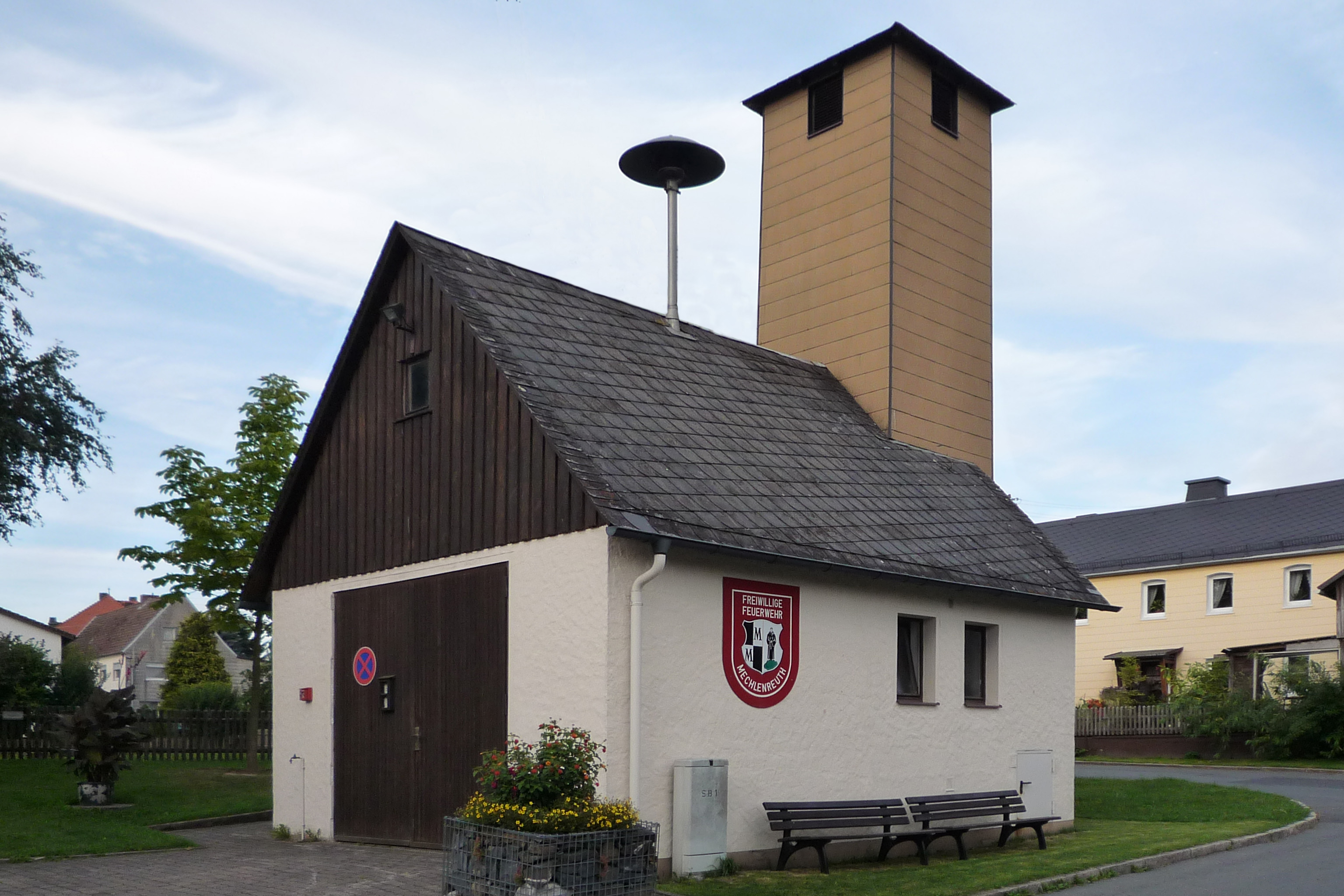 Fire brigade House of Mechlenreuth